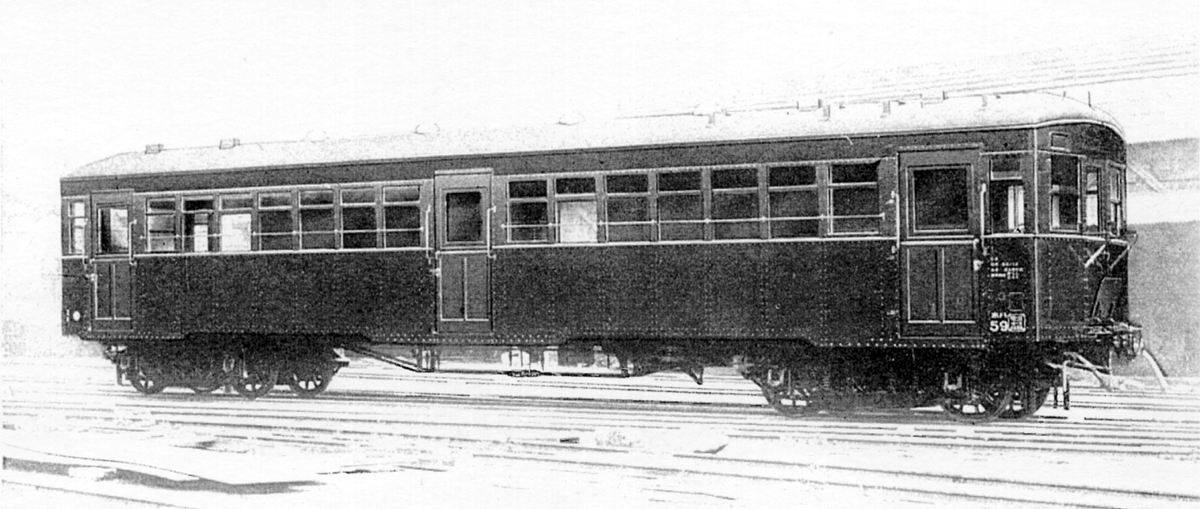 TOBU Railway Type HOHA 12 Passenger Car No.59